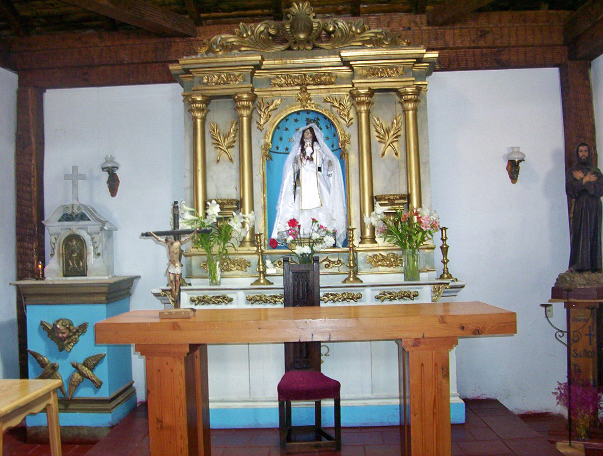 Virgin donated by Governor Marco del Pont to El Totoral Church (1818)